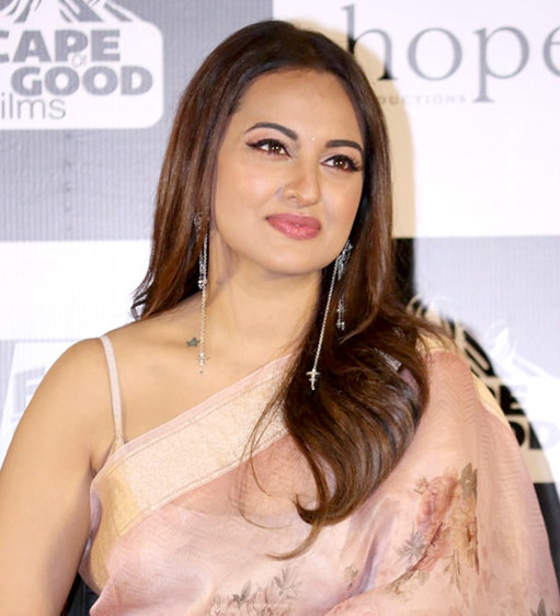 Sonakshi Sinha at the trailer launch of their film 'Mission Mangal'